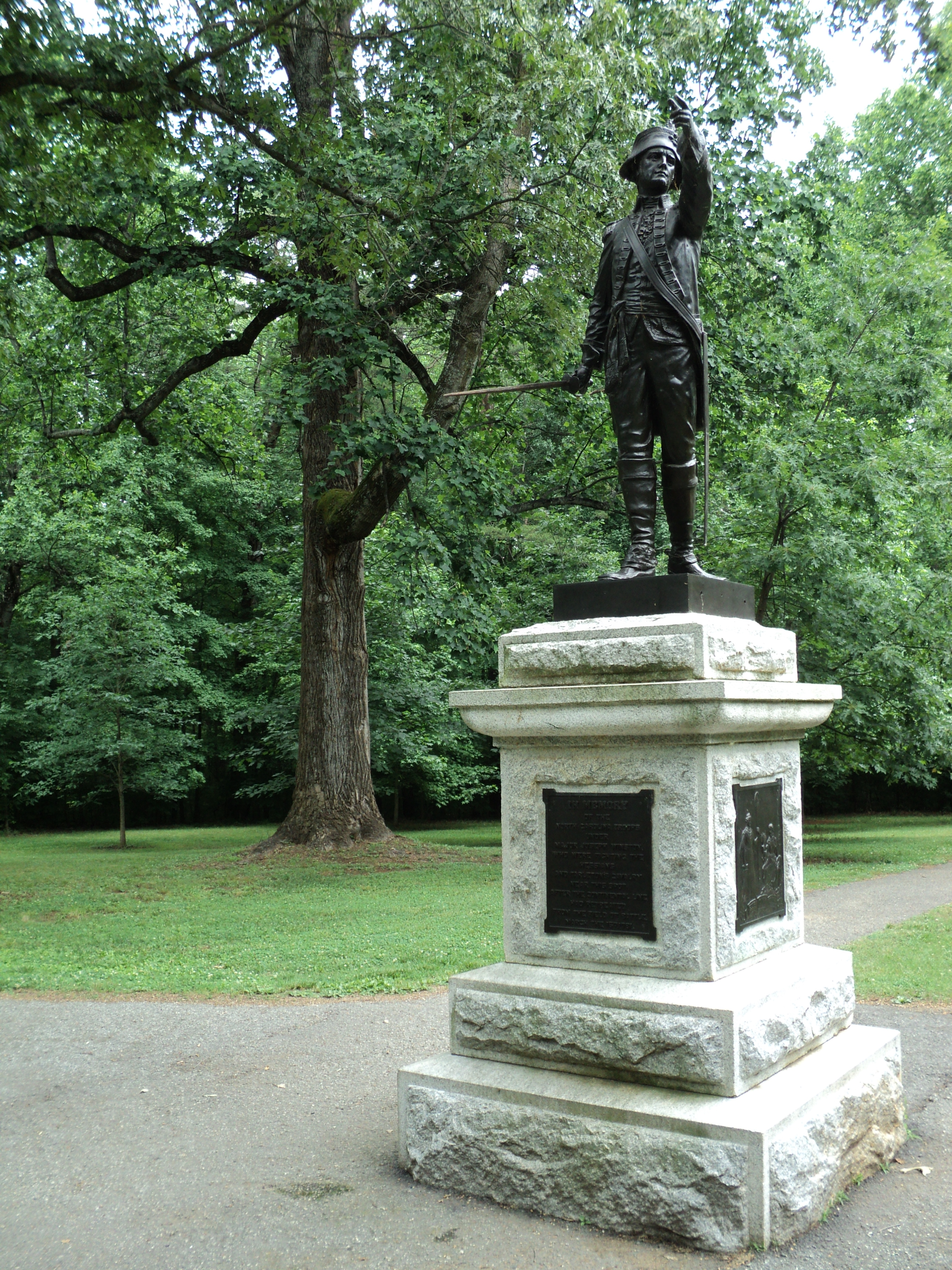 Monument to Major Joseph Winston, Guilford Court House National Military Park, Greensboro, North Carolina.